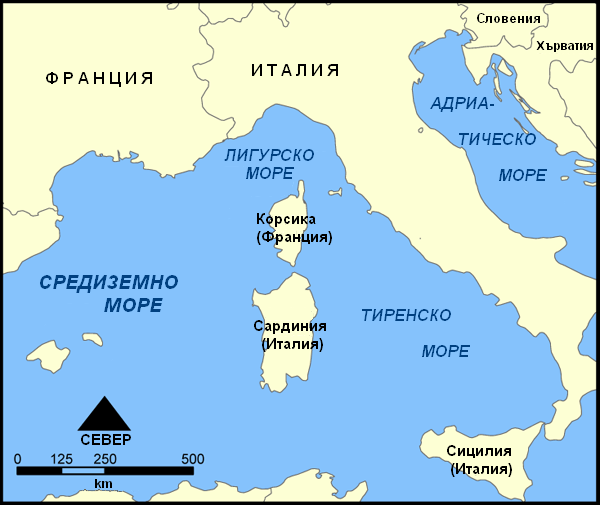 A map showing the location of the Ligurian Sea.